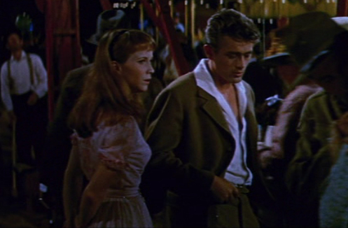 Cropped screenshot of Julie Harris and James Dean in the trailer for the film East of Eden